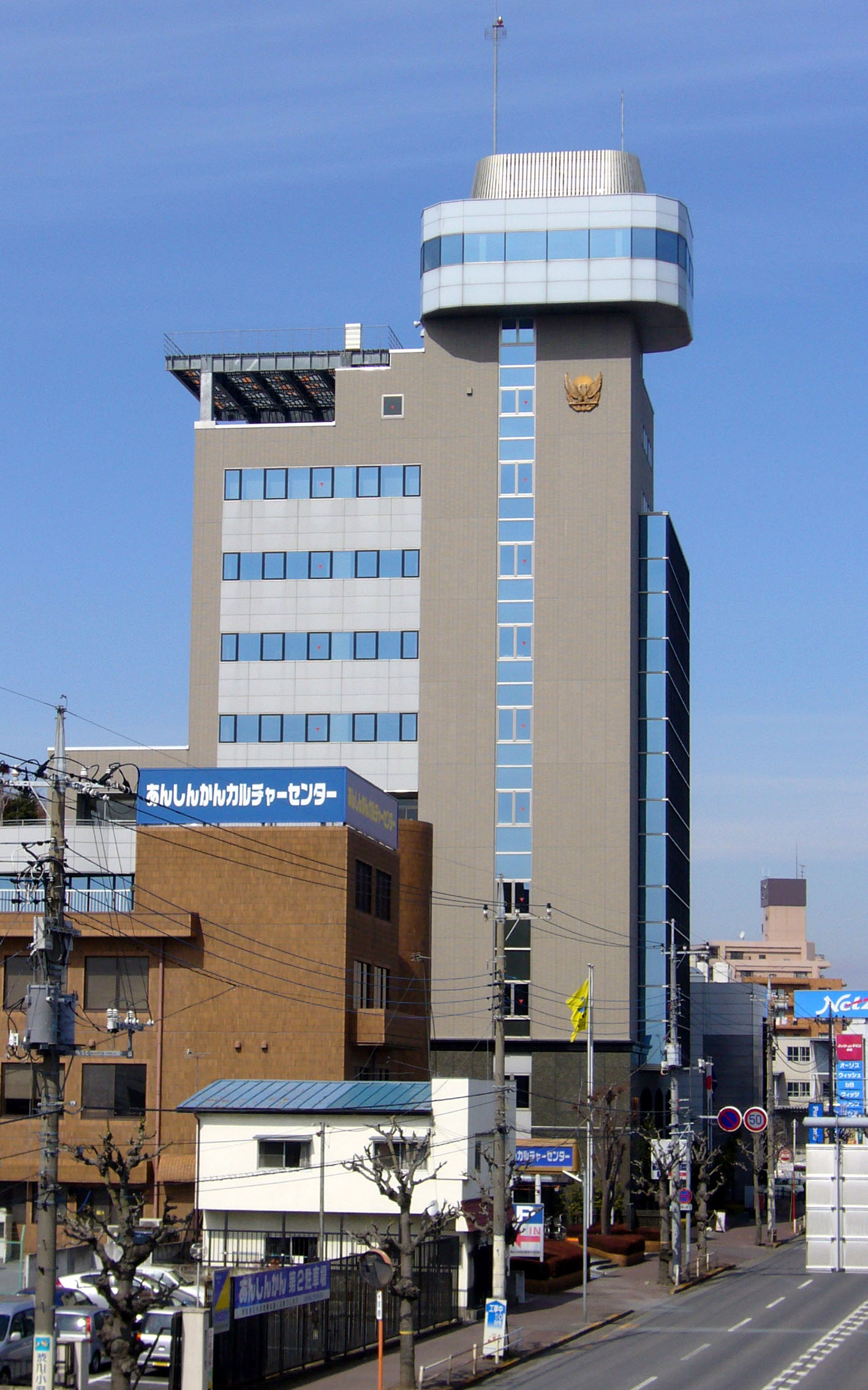 North Kanto Sogo Guard and Security Services headquarters (Utsunomya, Japan)